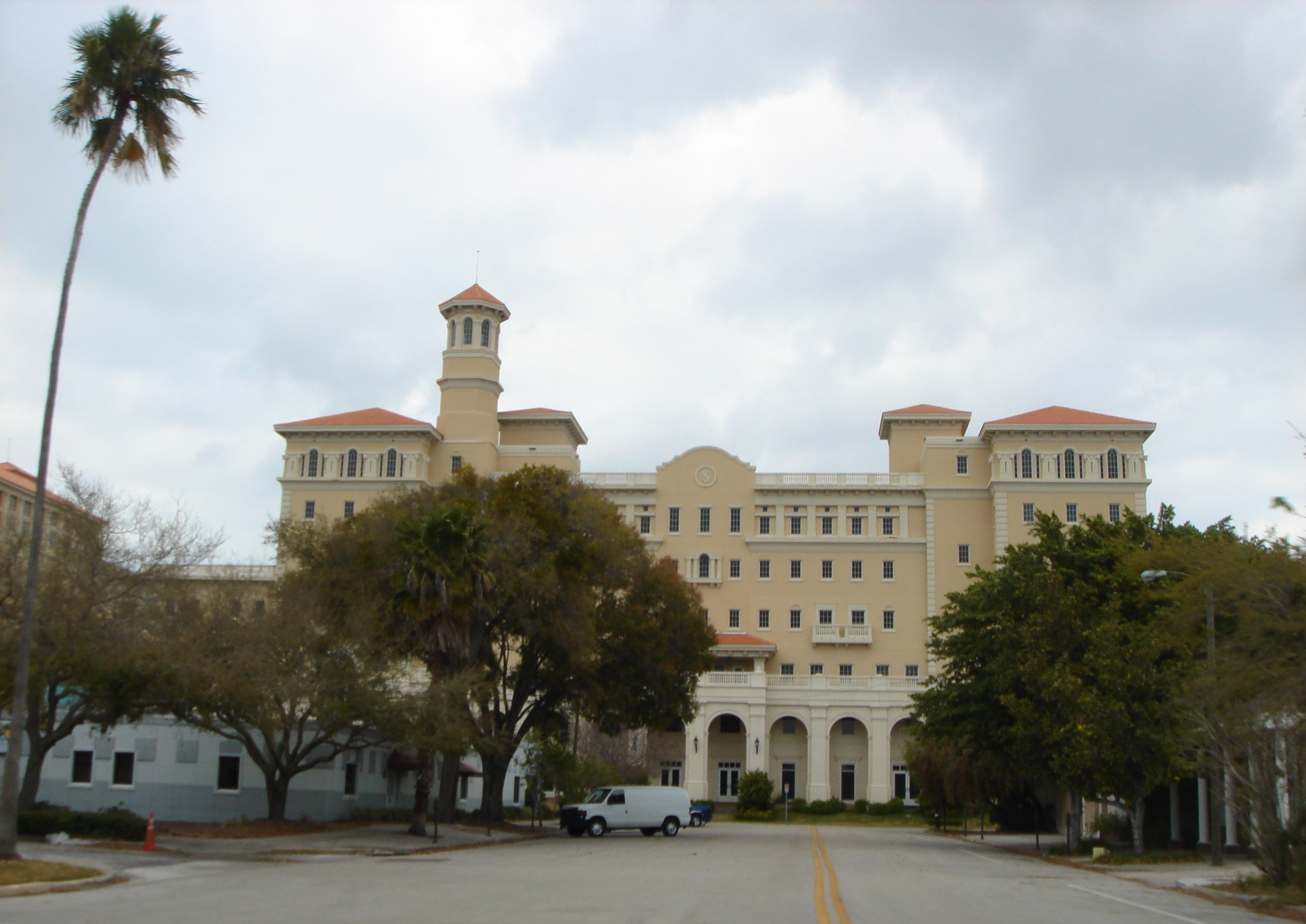 Church of Scientology Clearwater headquarters. Super Power Building. Clearwater, Florida.